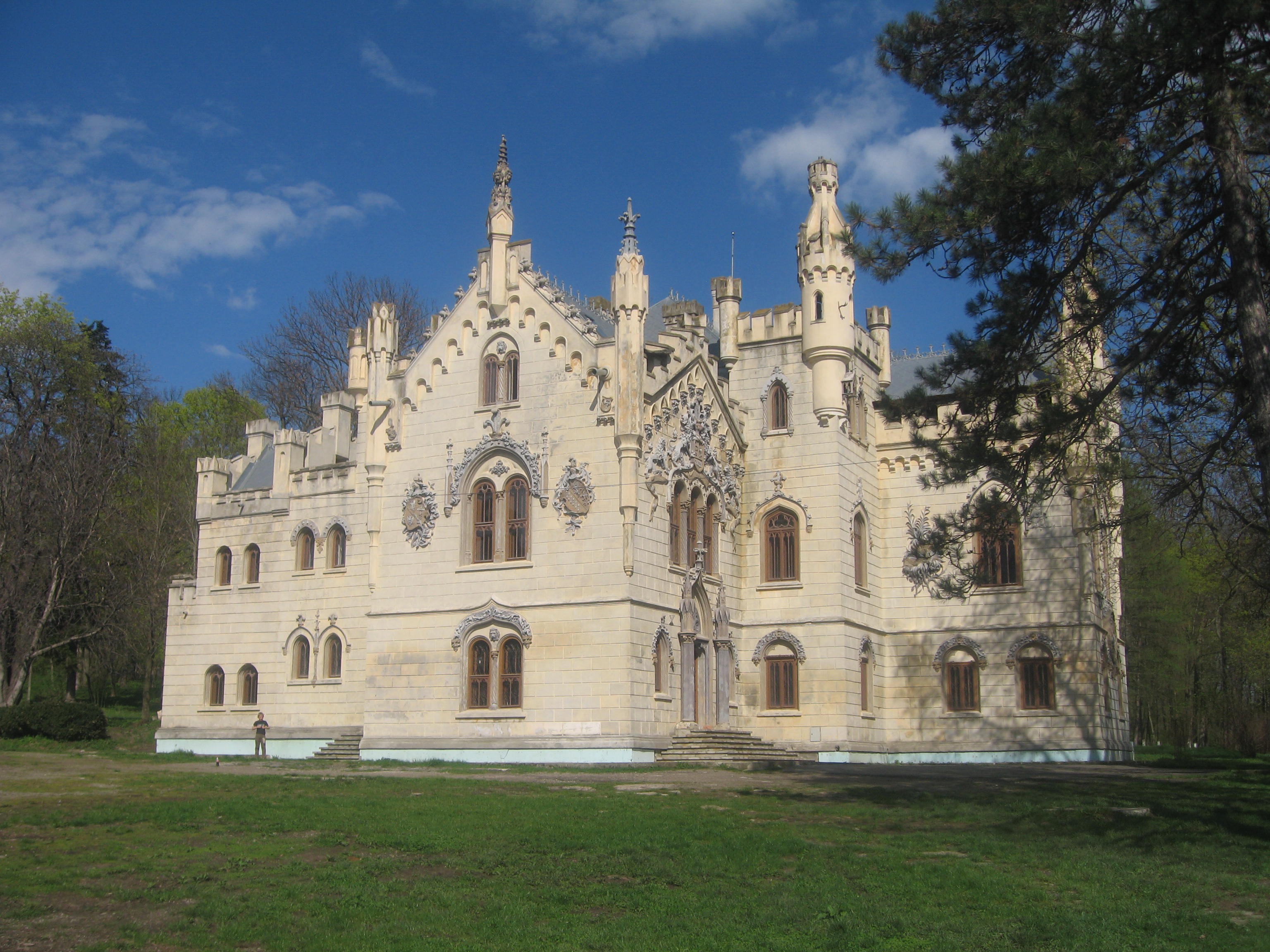 Sturdza Castle of Miclăuşeni 02